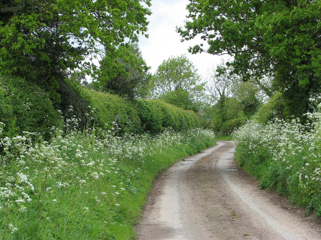 Cow parsley and hedges. This road links the A149 with the B1150, further to the west.